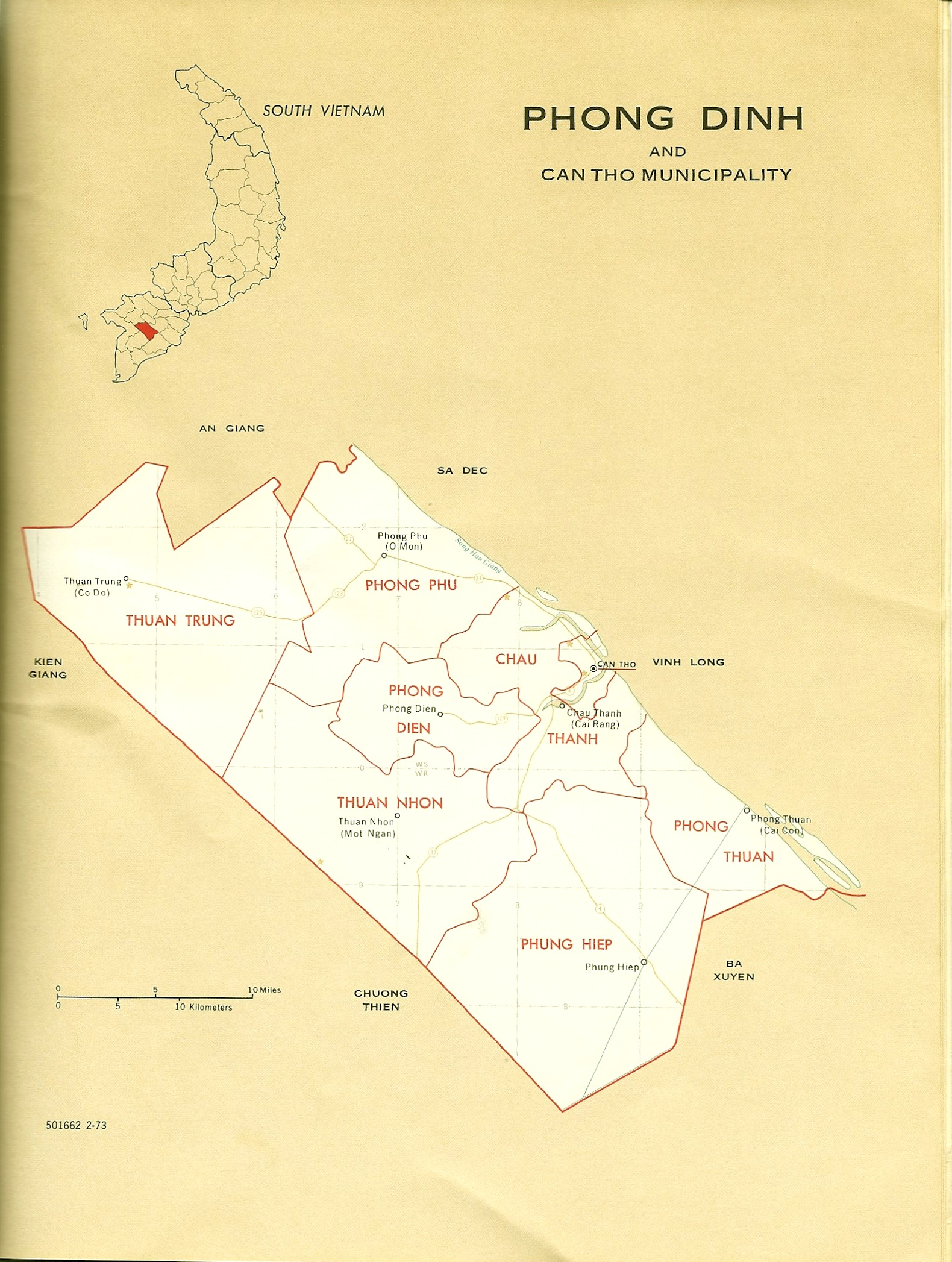 Phong-dinh Province and Can-tho Municipality Unknown